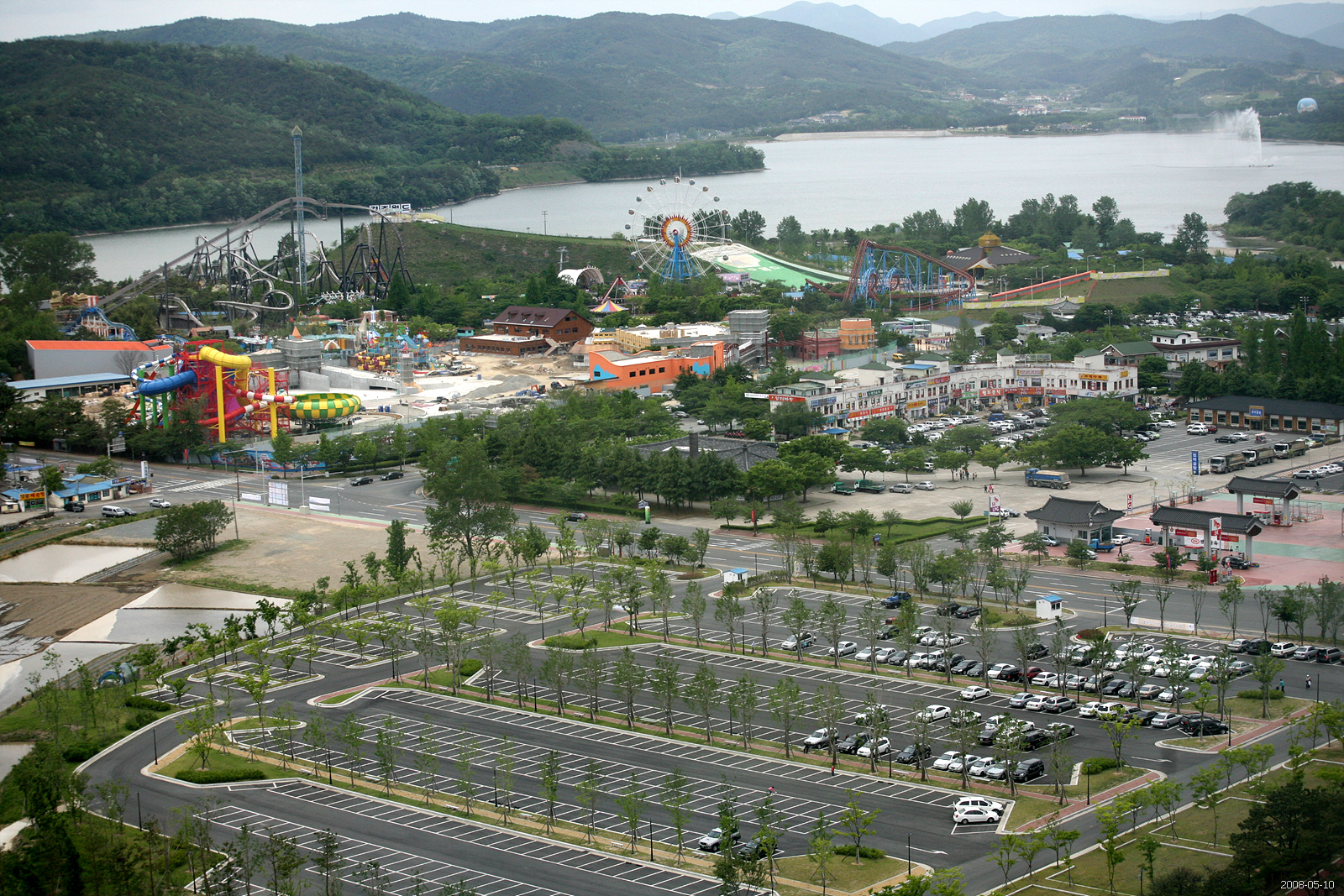 Gyeongju, North Gyeongsang province, South Korea